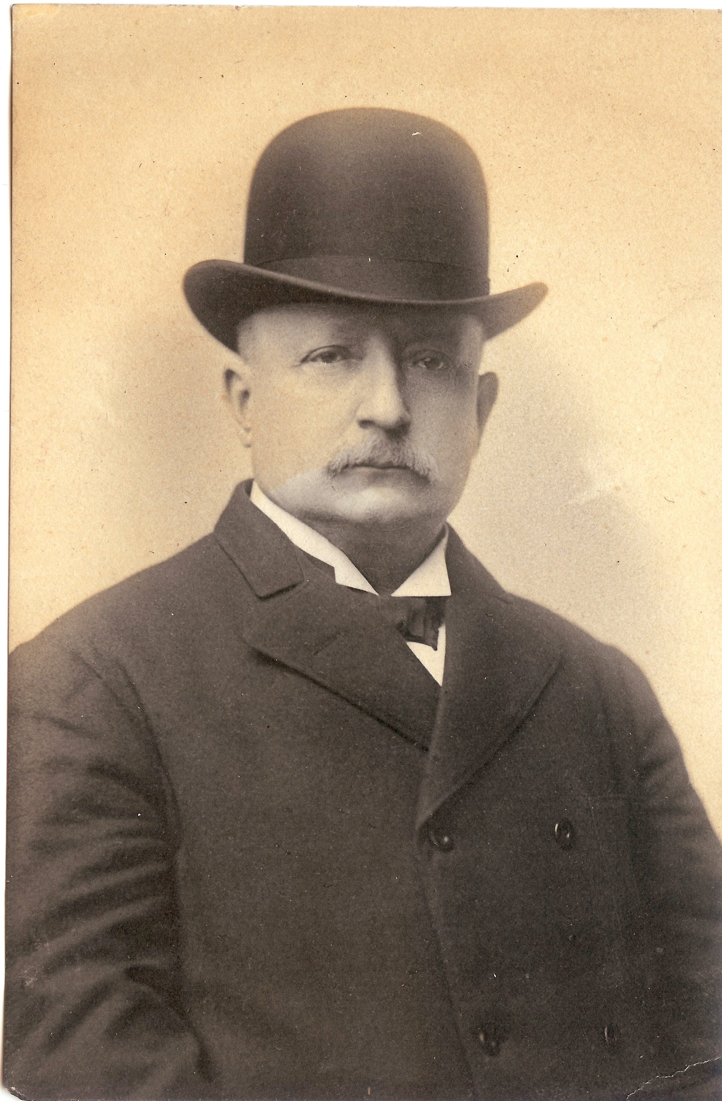 His nickname was "Old Gent"